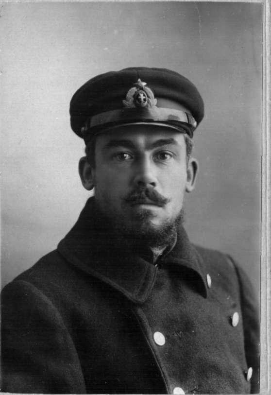 Georgy N Rybin in 1929(?)